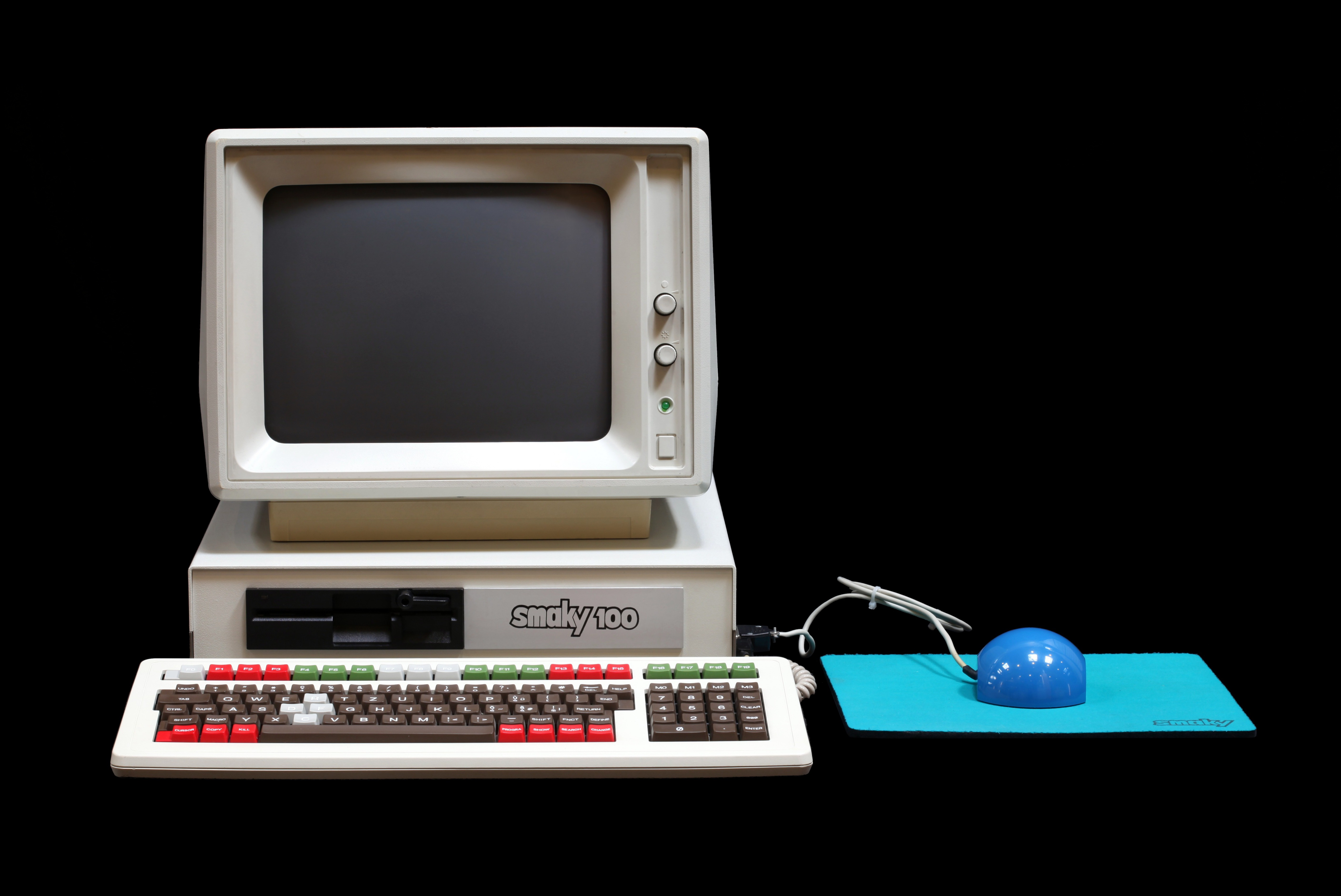 Smaky-100 computer. On display at the Musée Bolo, EPFL, Lausanne.